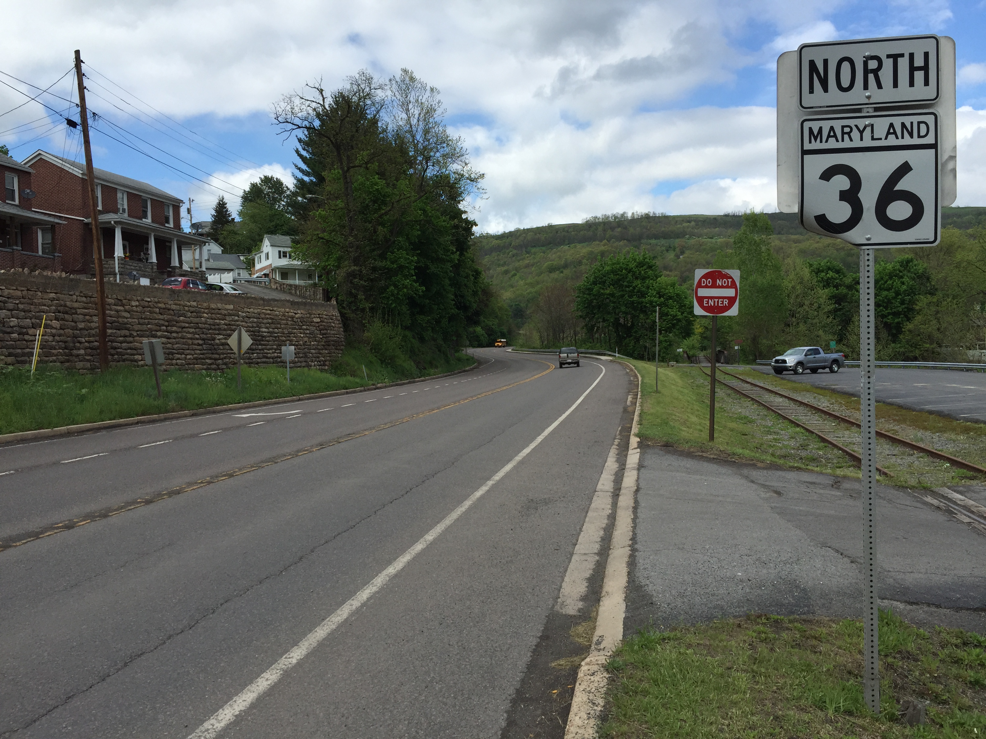 View north along Maryland State Route 36 (Victory Post Road) in Westernport, Allegany County, Maryland